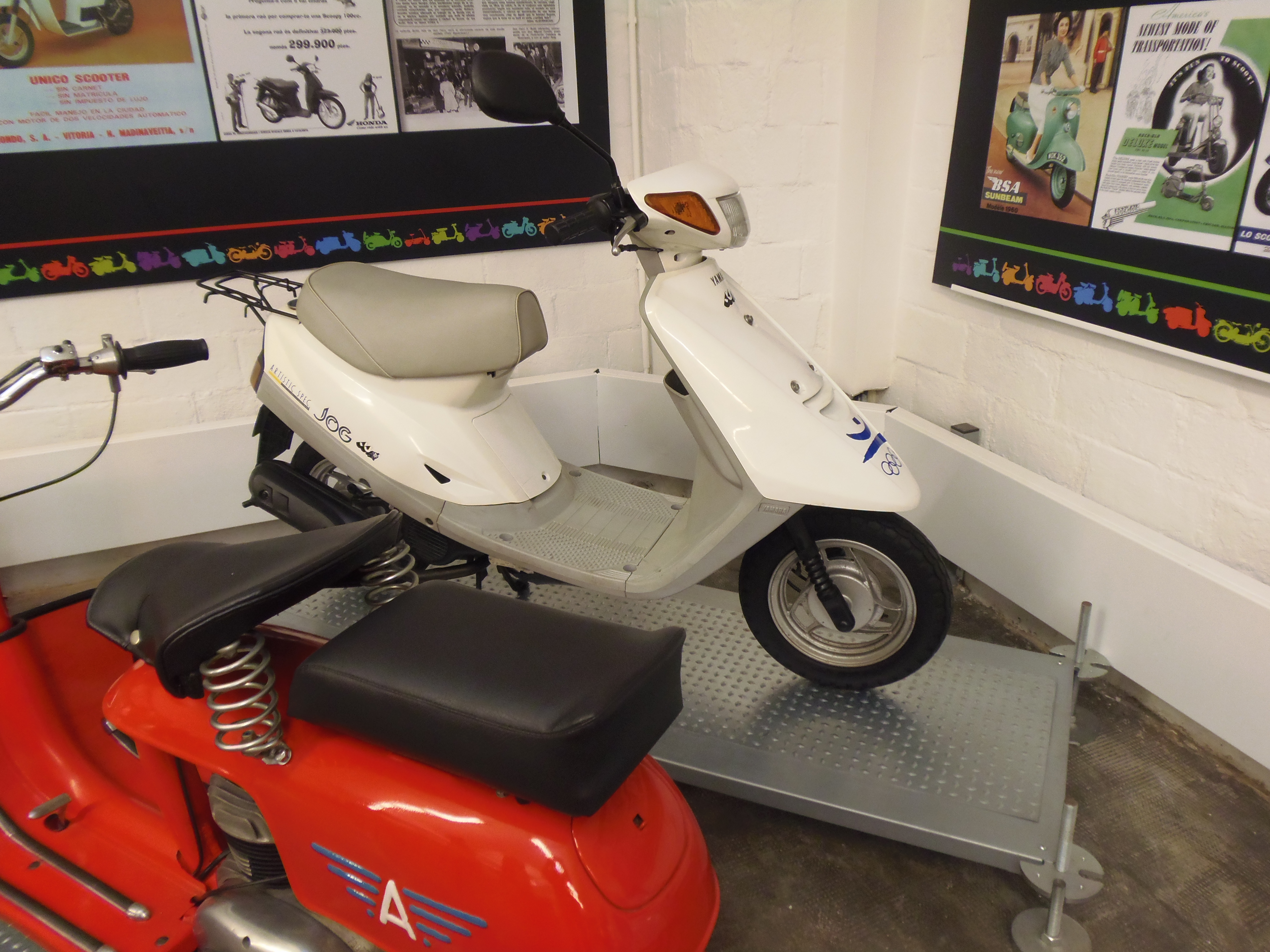 Yamaha Jog 50 cc (1989), used by the volonteers of the 1992 summer Olympics in Barcelona